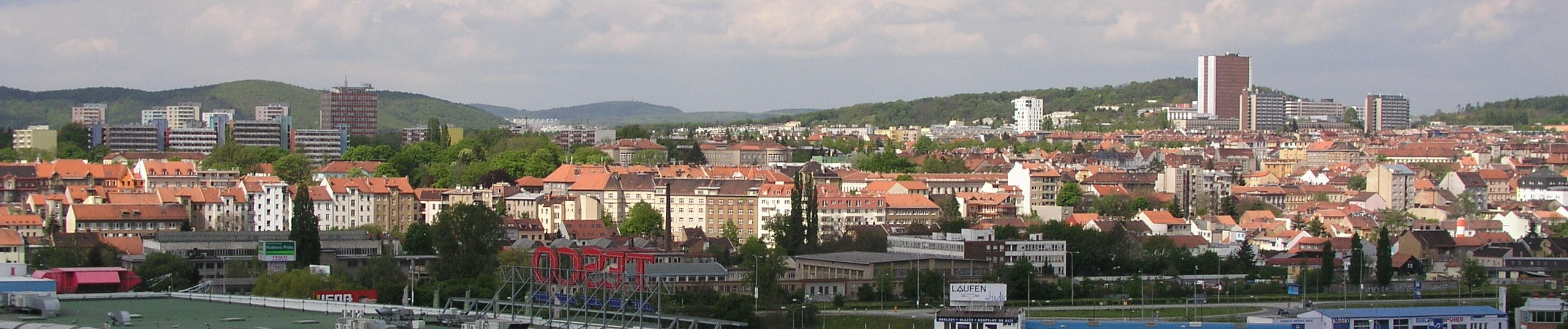 Brno-Královo Pole - view from East